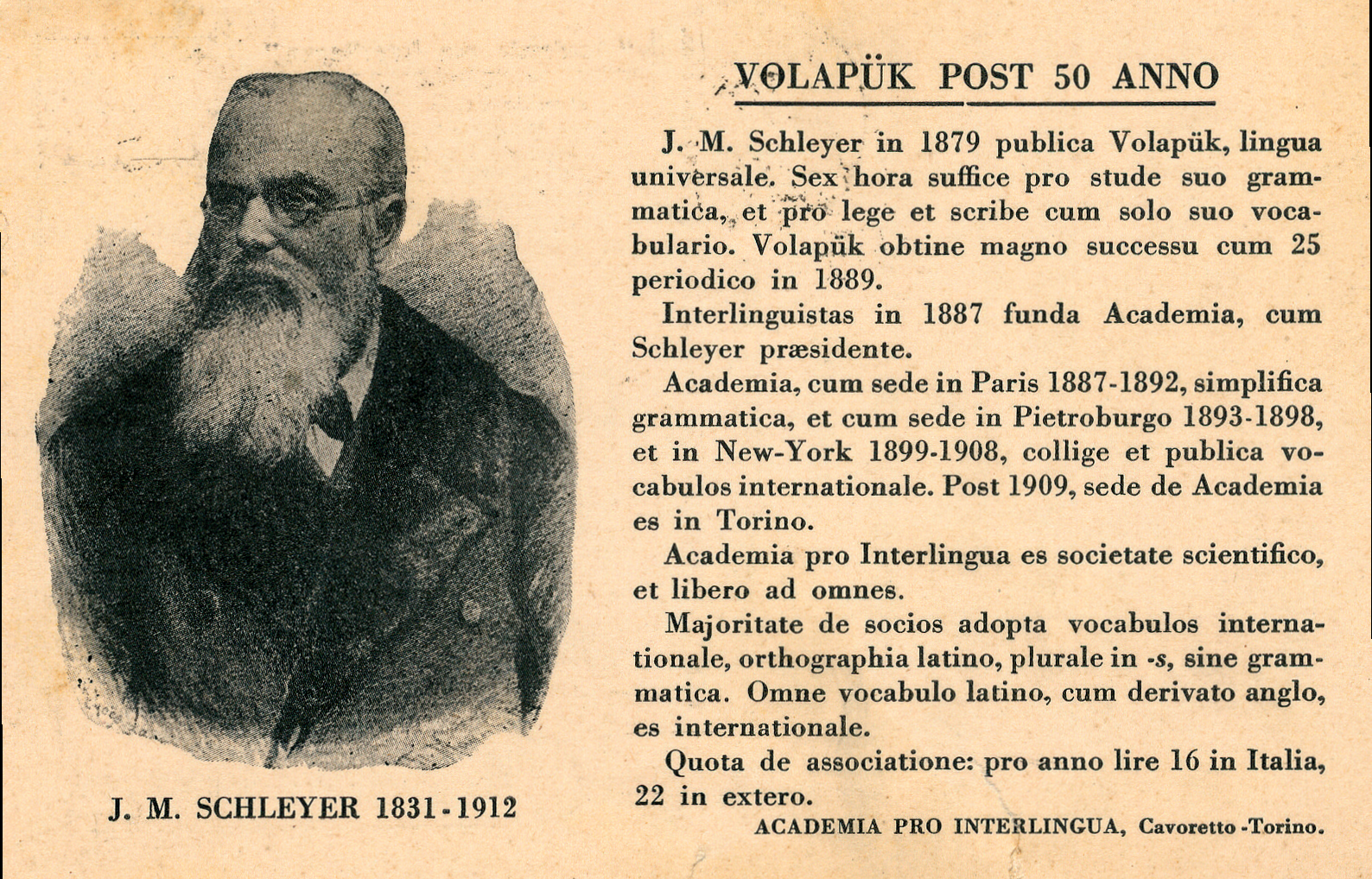 Postcard in Latino sine flexione published in 1929 by the Academia pro Interlingua to celebrate the 50th anniversary of the creation of Volapük.